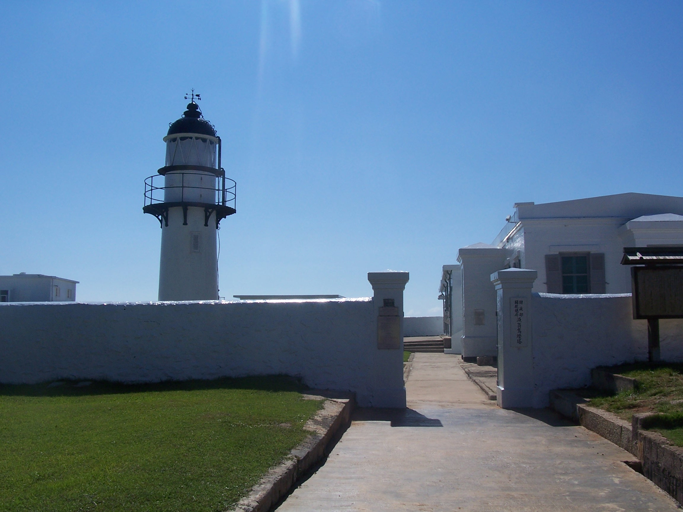 Yuwengdao or Yu-weng Tao lighthouse (Yu Weng Tao, Yuwongdao). Shi-yeu Lighthouse, in Shi-yeu Township, Peng-hu County, Taiwan, R.O.C. (NGA:112-13872).